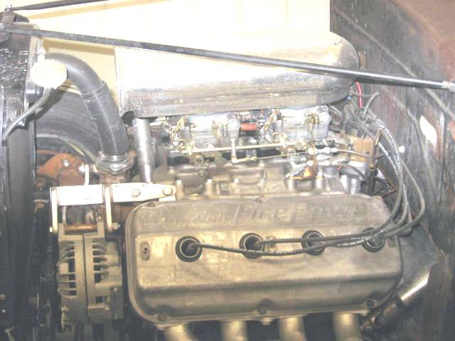 in rat rod at local car show